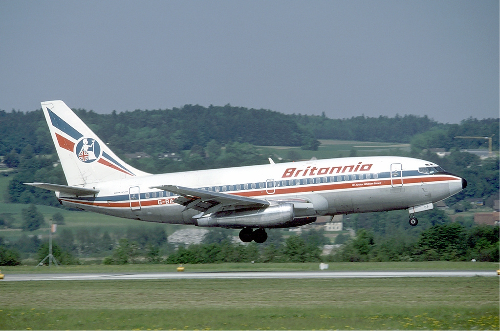 Boeing 737-200 of Britannia Airways at Zurich Airport. Registration G-BADP and named "Sir Arthur Whitten Brown"